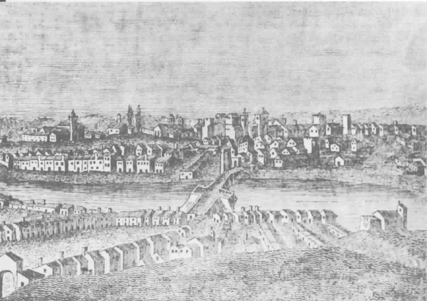 Depiction of Tavira by an unknown artist from the 15th to 16th century (interval of uncertainty.), publish in the Panorama magazine in July 1843